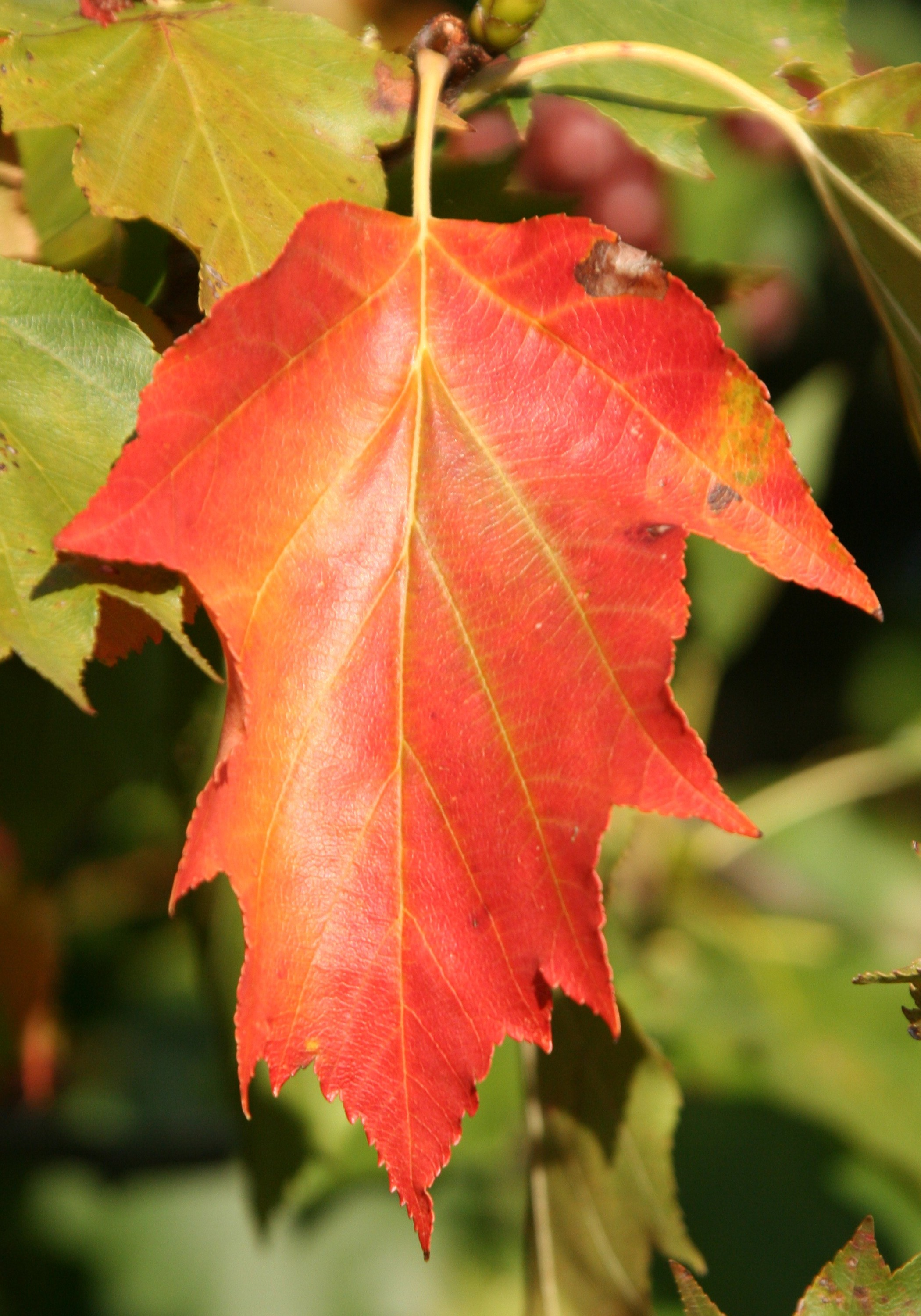 Autumnal leaf of a Wild Service Tree (Sorbus torminalis), photographed in Weinsberg